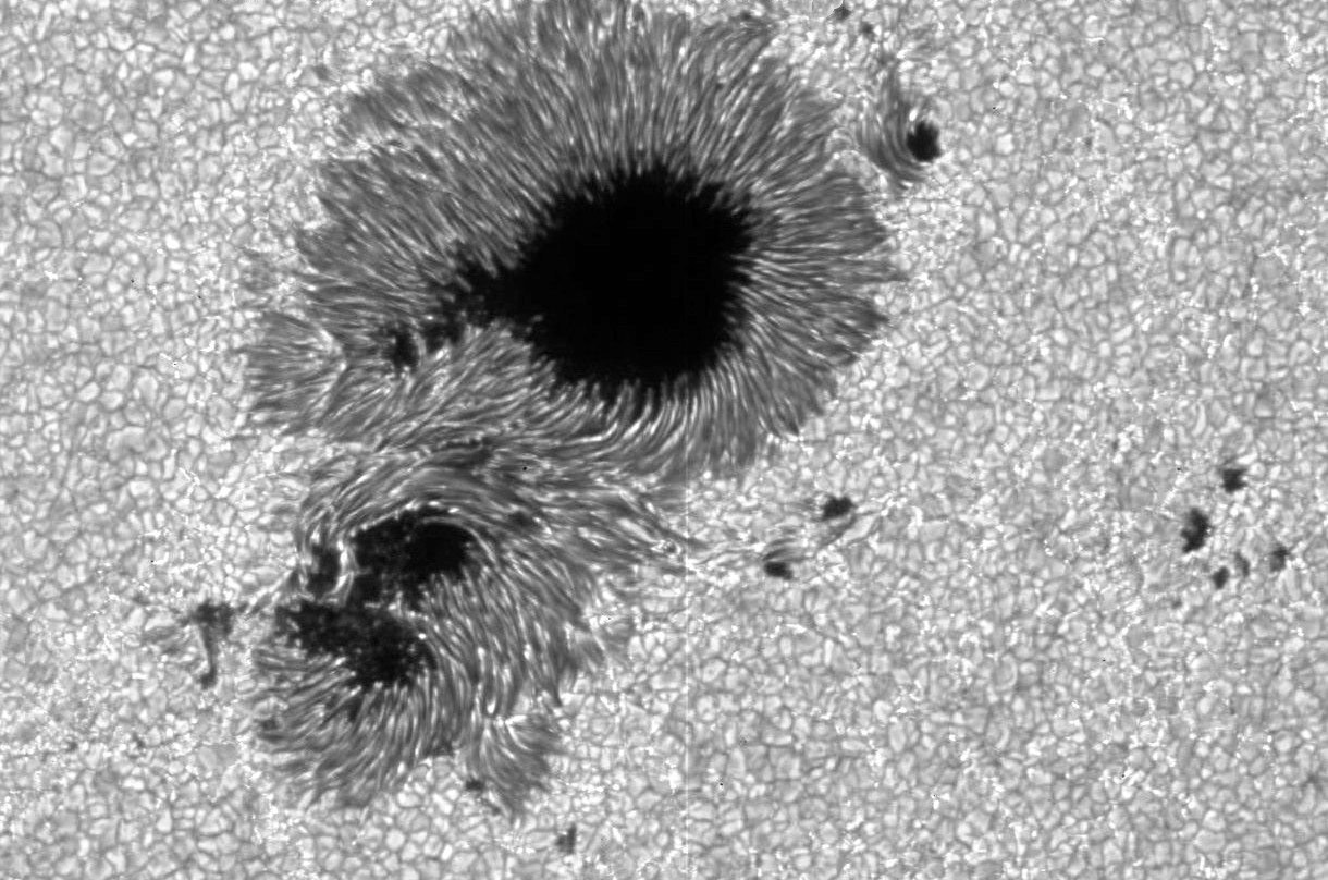 Granules-like structure of surface of sun and sunspots (size around 20'000km). Visible light. Taken by Hinode's Solar Optical Telescope (SOT). These sunspots belong to AR 10930 where X3.4 flare occurred on that day.